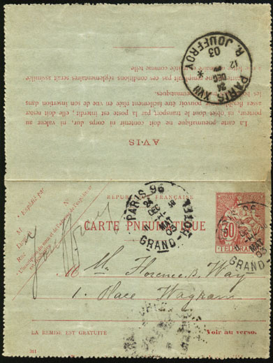 Letter form of the Parisian pneumatic postal service, 1903